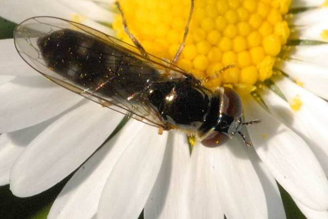 Platycheirus albimanus from Commanster, Belgian High Ardennes .